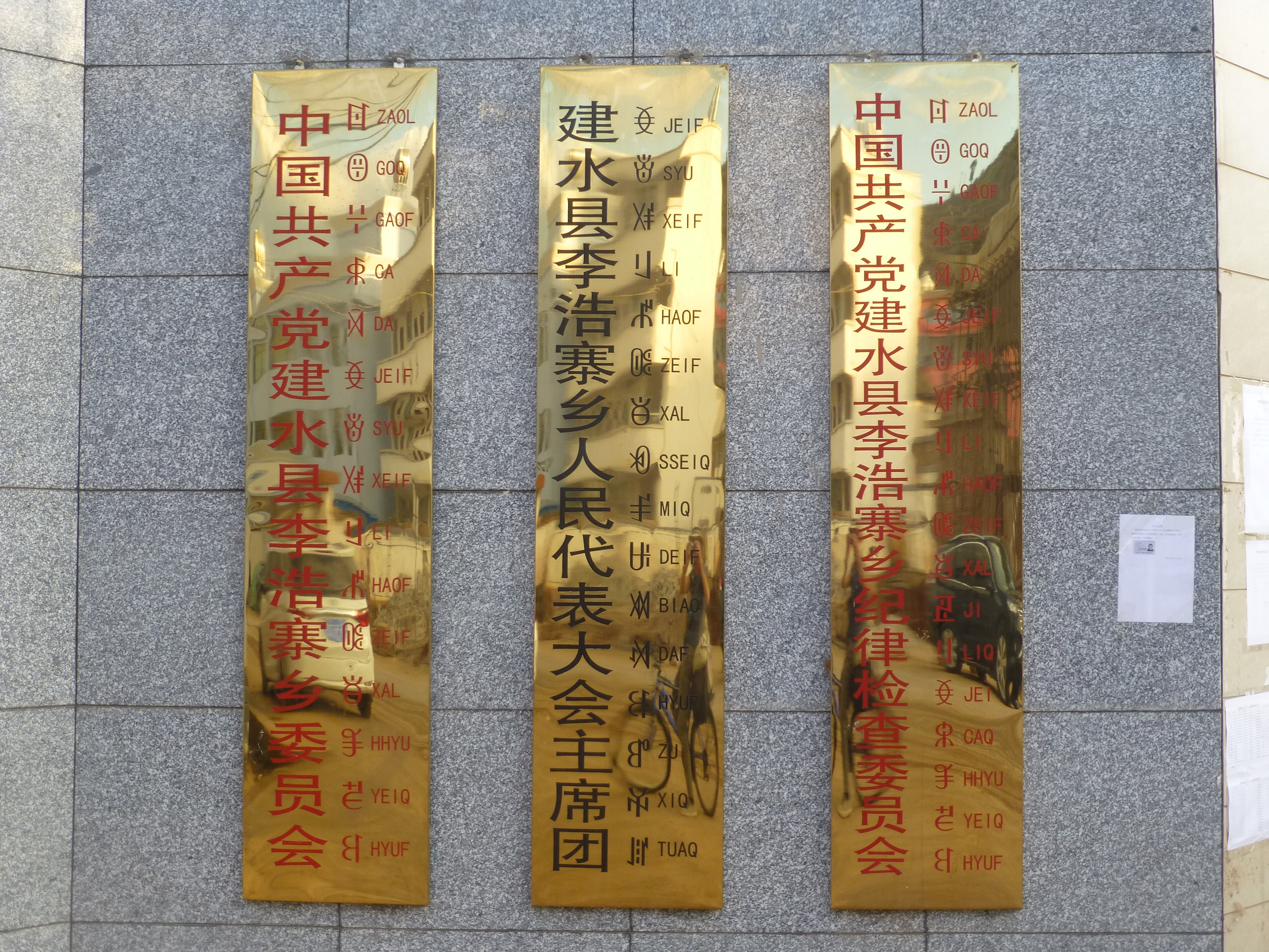 Lihaozhai Township government building. The signs are trilingual, in Chinese, Yi (syllabic script) and Hani (alphabetic script, 1983 standard). The three Chinese signs (and their Hanyu Pinyin transcription, not present in the signs), from the left to the right, are as follows: 中国共产党建水县李浩寨乡委员会 Zhongguo Gongchandang Jianshui xian Lihaozhai xiang weiyuanhui 建水县李浩寨乡人民代表大会席团 Jianshui xian Lihaozhai xiang renmin daibiao dahui xituan 中国共产党建水县李浩寨乡纪律检查委员会 Zhongguo Gongchandang Jianshui xian Lihaozhai xiang jilü jiancha weiyuanhui Note that the Hani text has syllable-to-syllable correspondence with the Chinese pinyin.